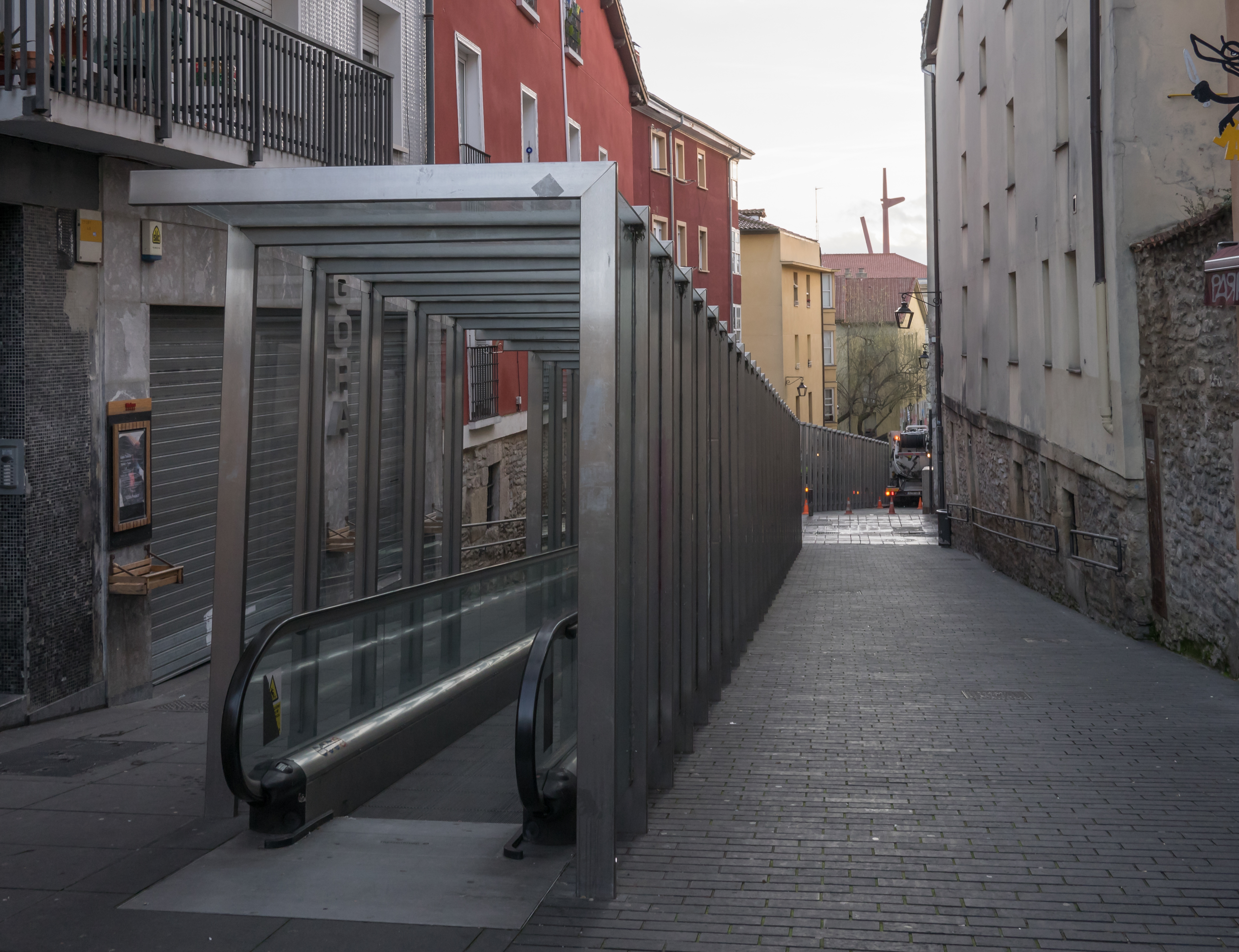 Escalator at Cantón de San Francisco Javier Street in the Old Town. Vitoria-Gasteiz, Basque Country, Spain